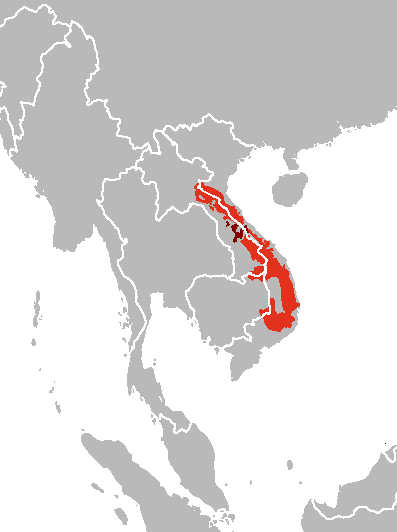 Muntiacus_vuquangensis_distribution map